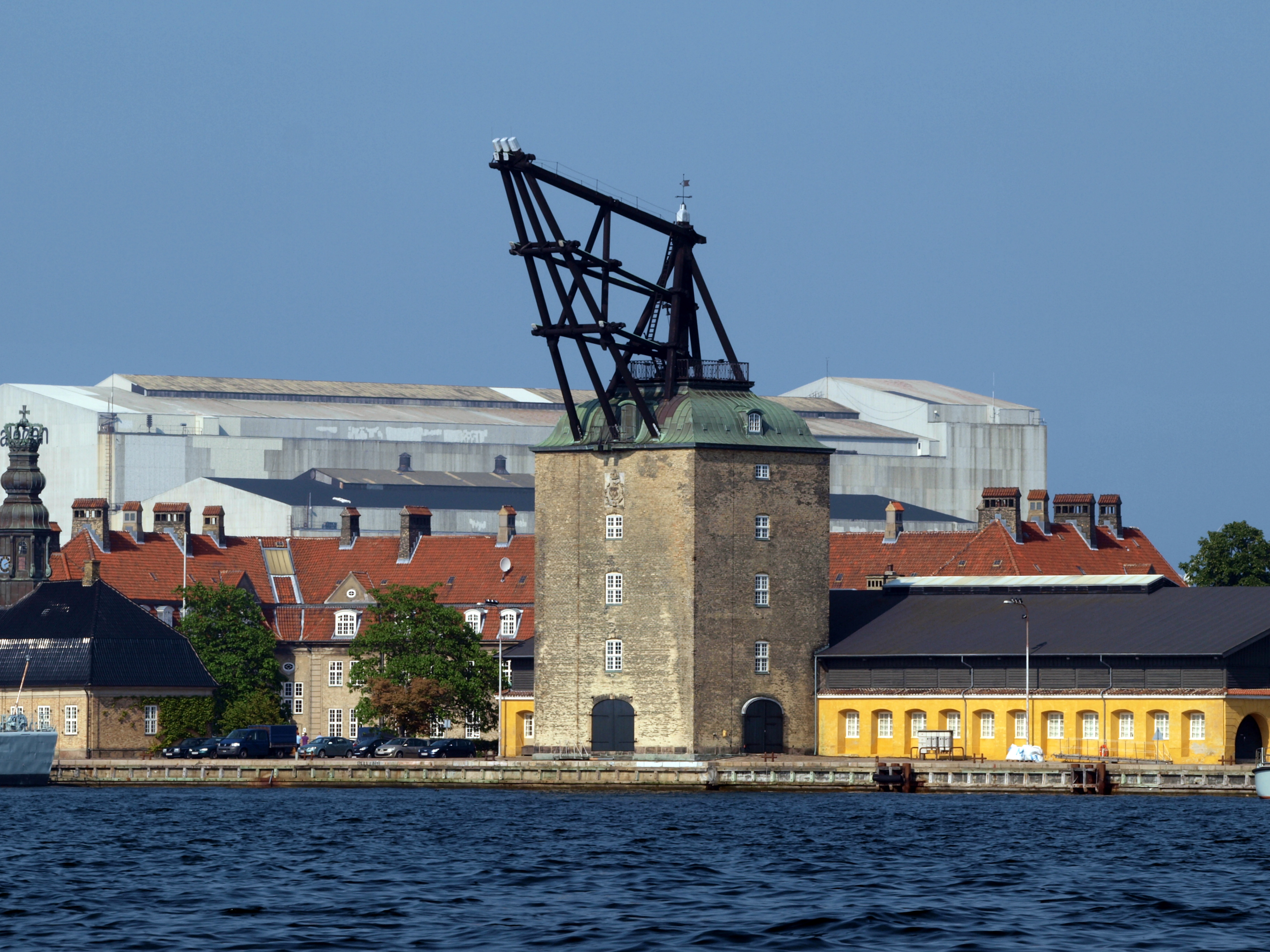 Photographed at the Copenhagen, Denmark.